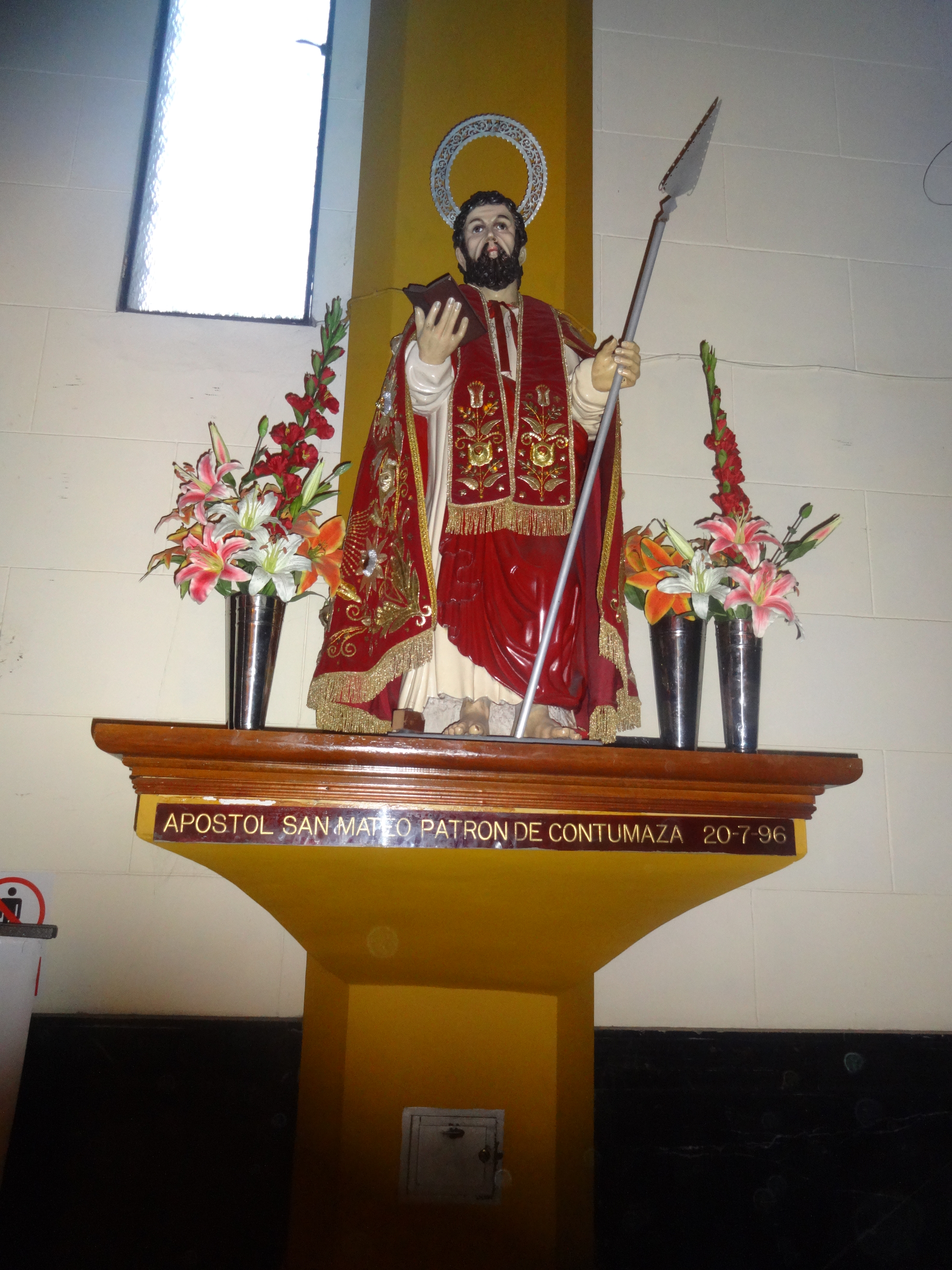 Statue of Saint Mathew in Saint Beatrice church, Lince District in Lima-Peru.